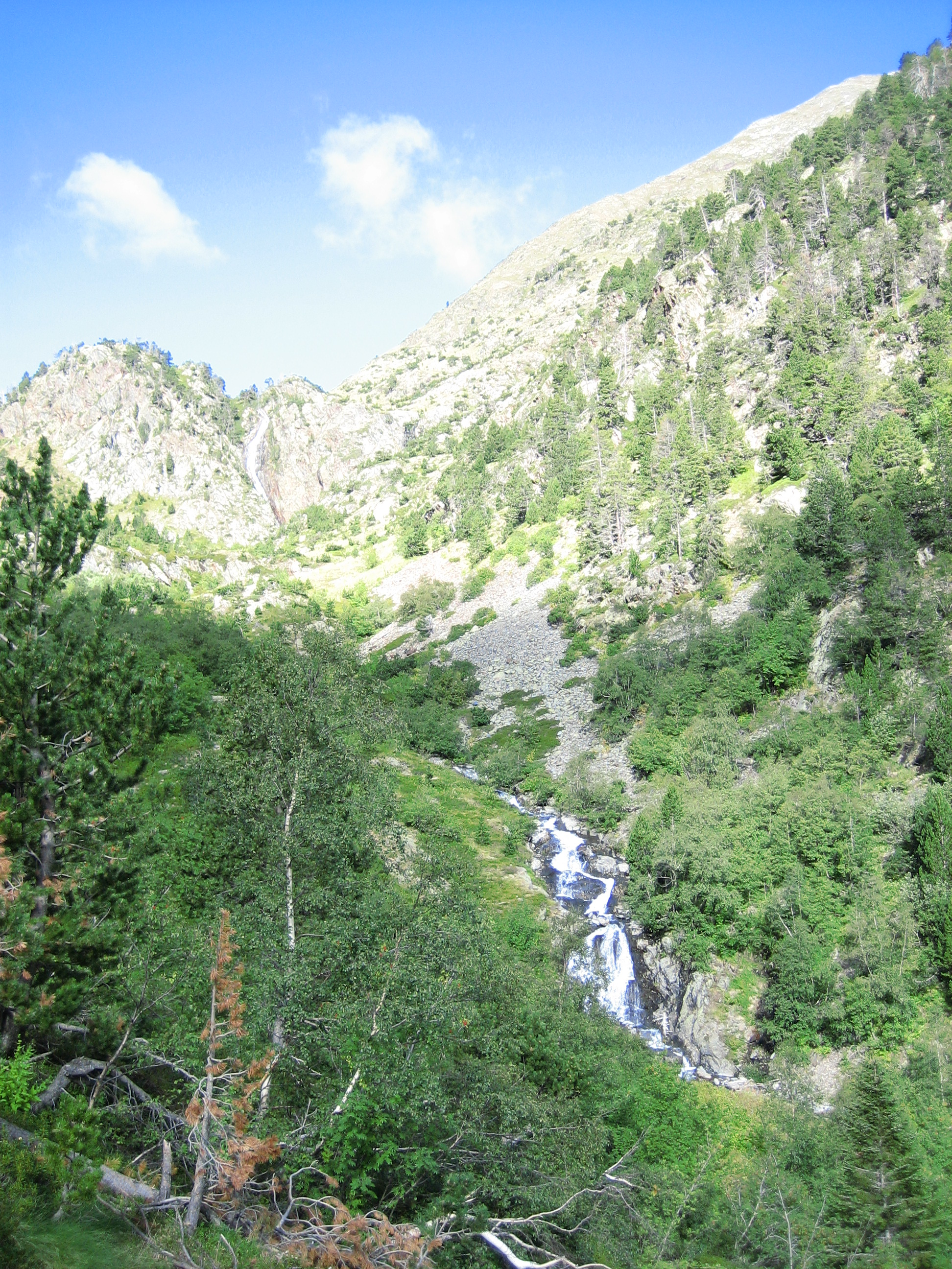 Riu de Coma Pedrosa river, Arinsal, La Massana, Andorra